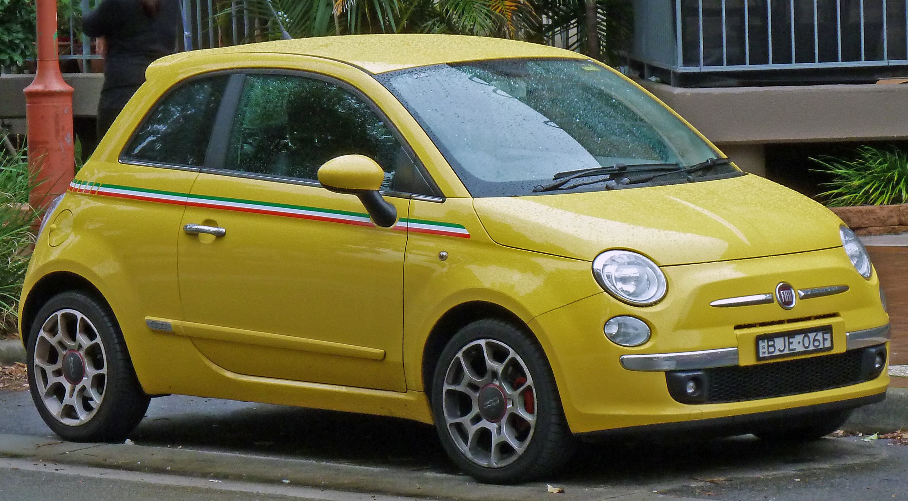 2008 Fiat 500 Sport hatchback. Photographed in Miranda, New South Wales, Australia.